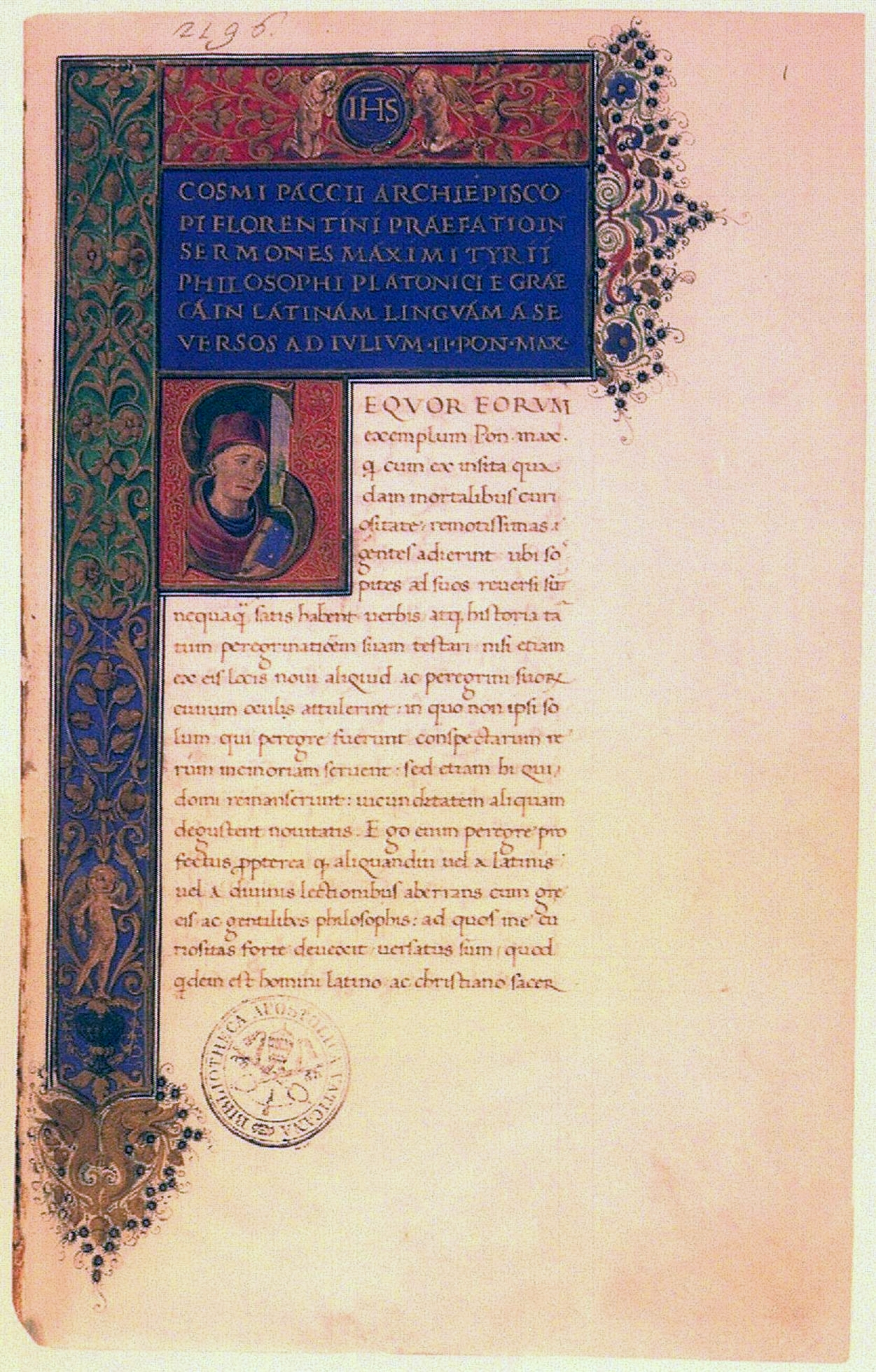 Discourses of Maximus of Tyre in the Latin translation by Cosimo de’ Pazzi, Archbishop of Florence. The picture shows the translator’s preface in the dedication copy for Pope Julius II. The person portayed in the miniature is the translator. Manuscript: Vatican City, Biblioteca Apostolica Vaticana, Vat. lat. 2196, fol. 1r.